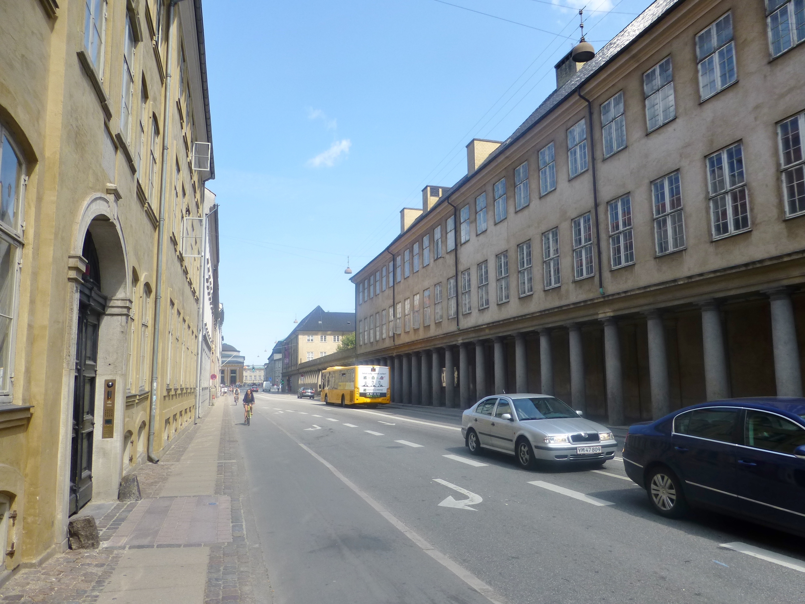 The street Stormgade in Indre By in Copenhagen.